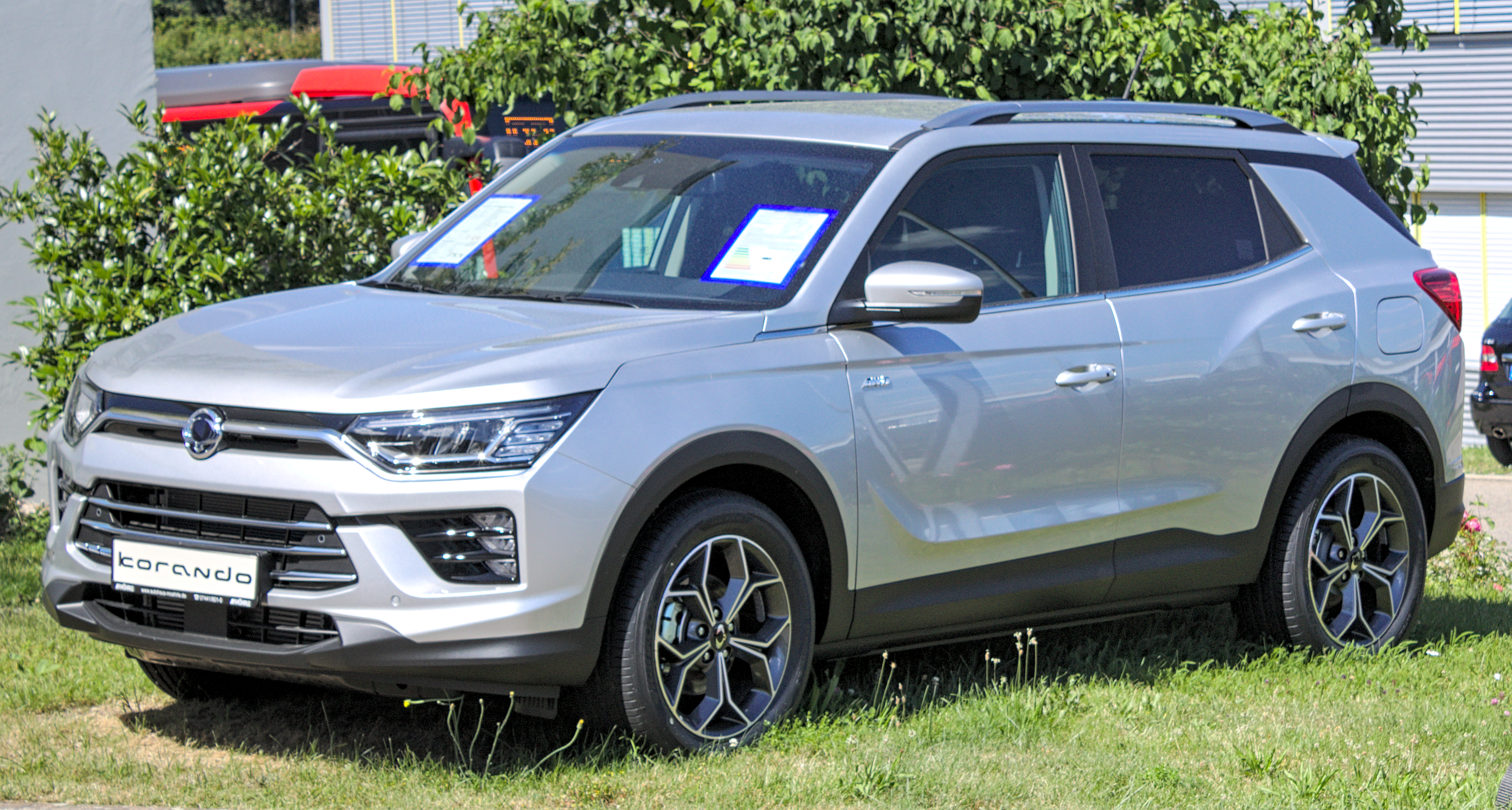 Ssangyong_Korando_(4th_generation) in Freudenstadt